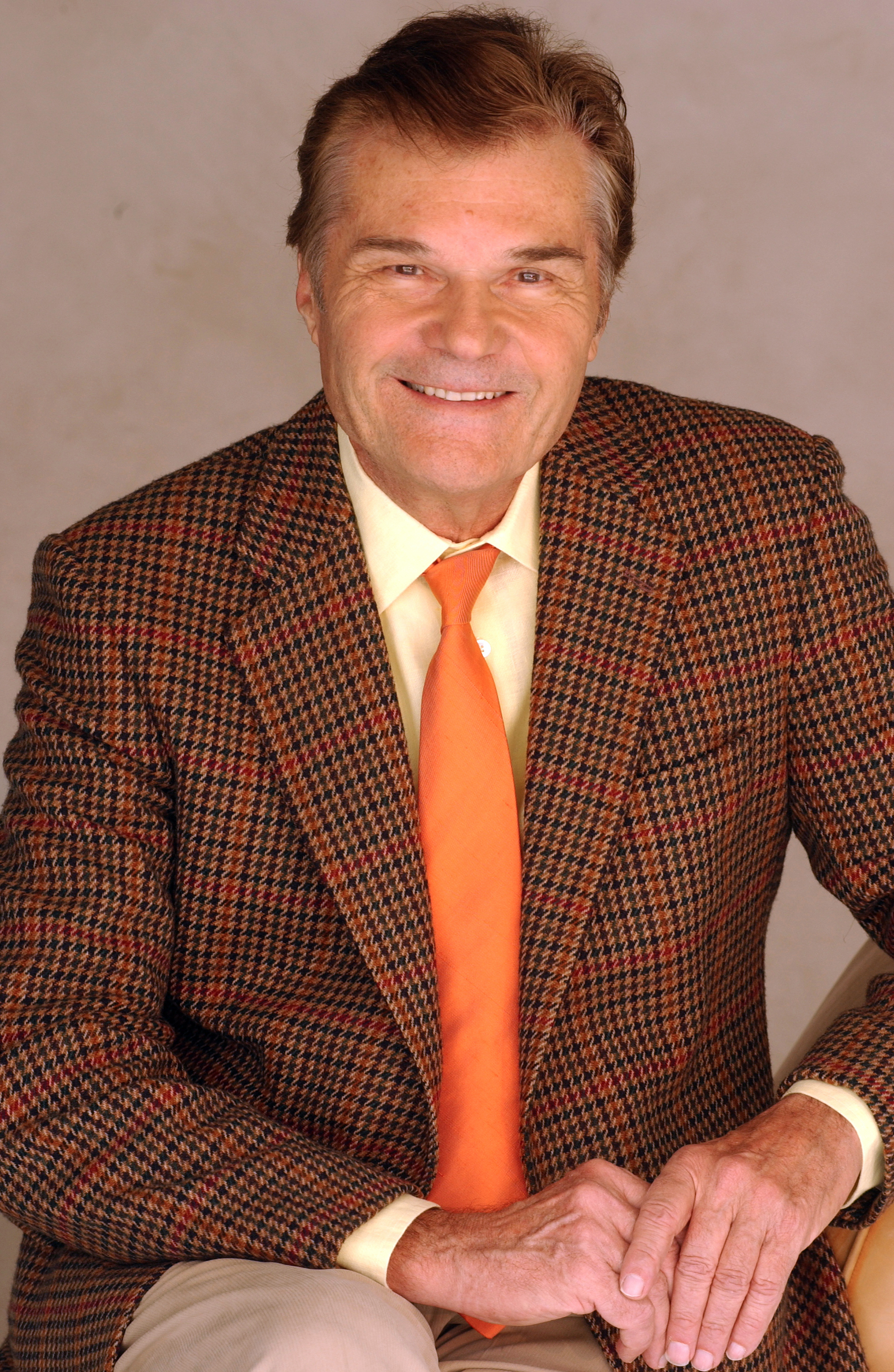 Fred Willard in April 2008.